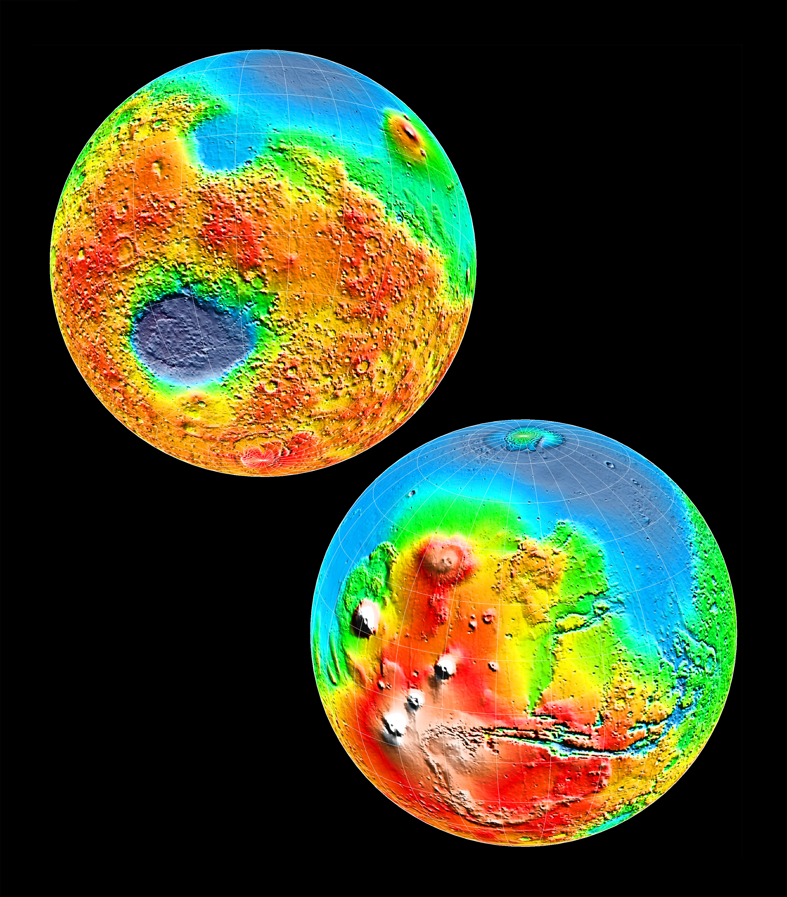 Mars Orbiter Laser Altimeter (MOLA) topographic map showing the two hemispheres of Mars. This image was seen on the cover of Science magazine in May of 1999.